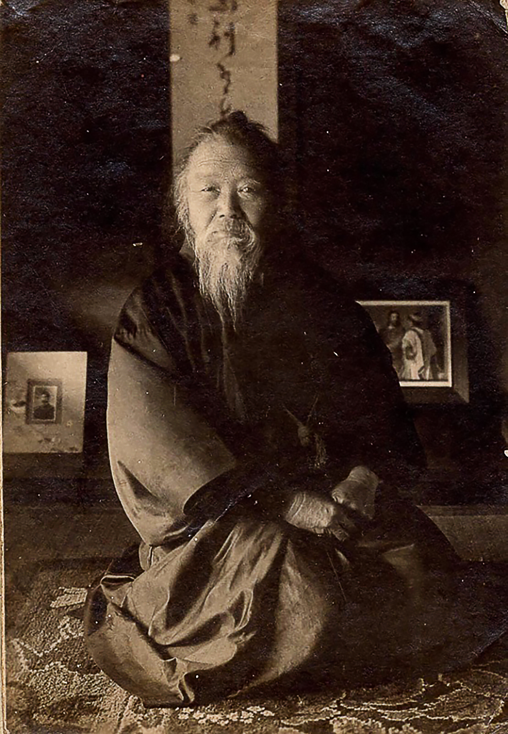 Shōzō Tanaka (December 15, 1841 – September 4, 1913), a Japanese politician